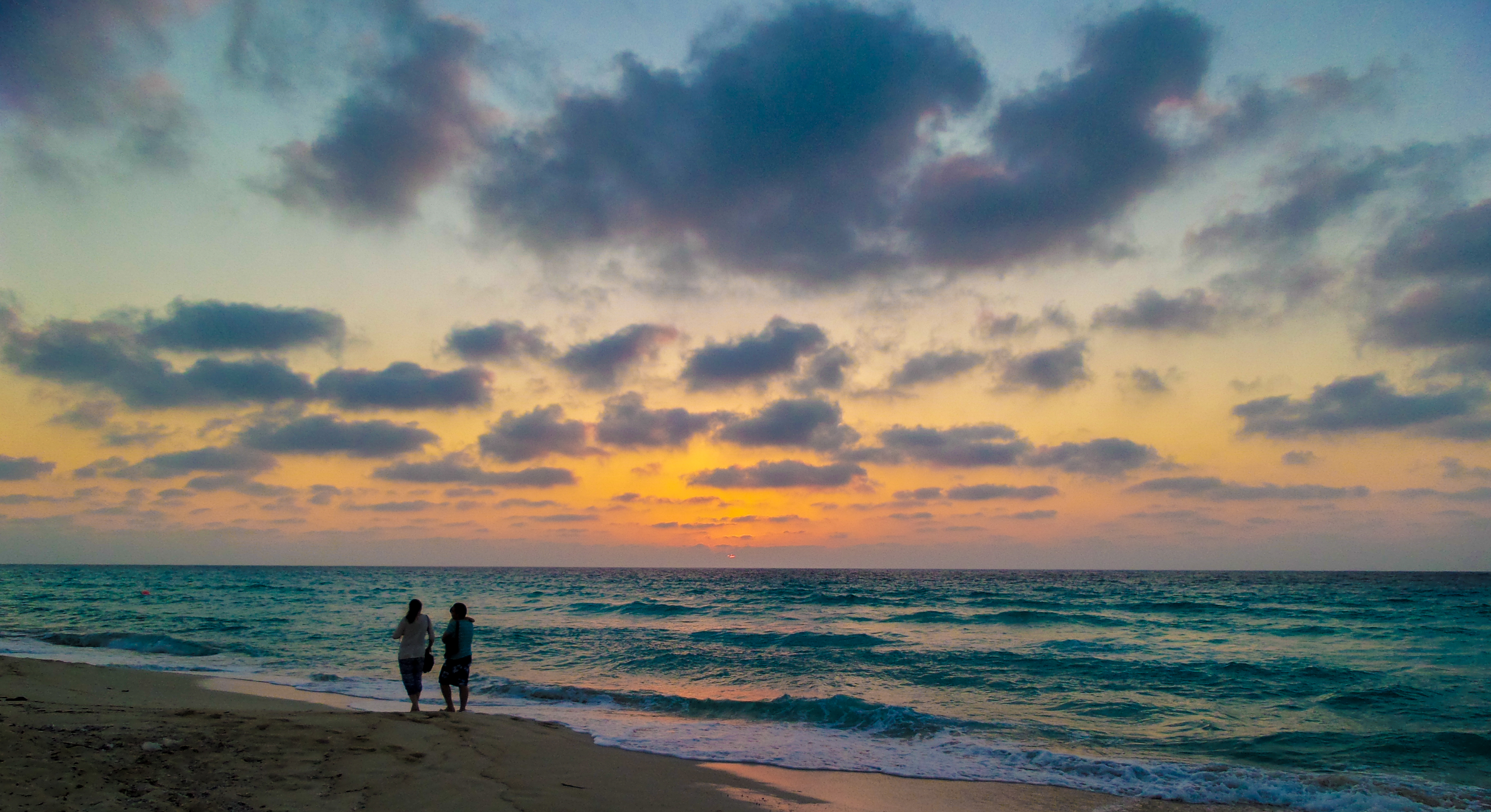 Sunset At North Coast Of Egypt